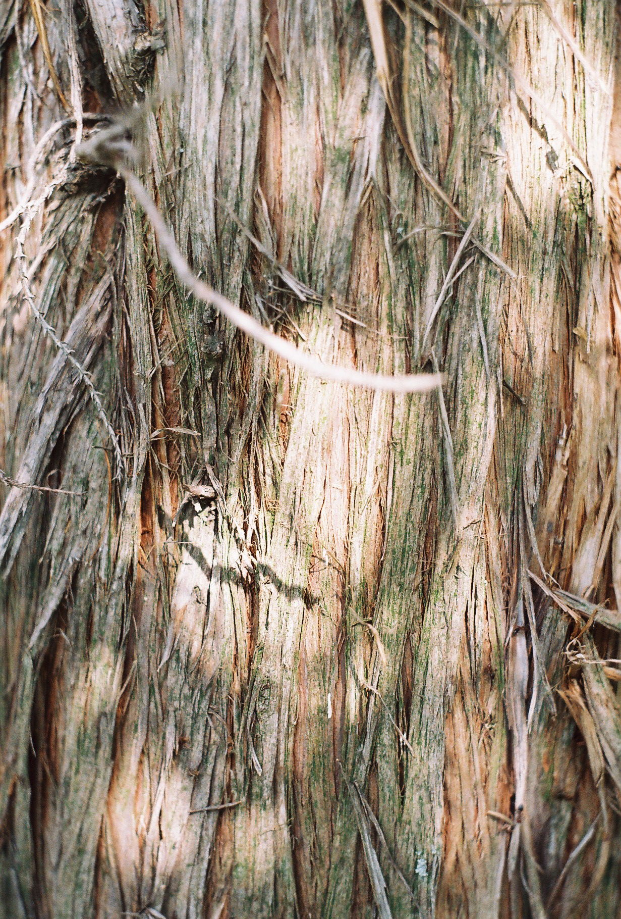 Juniperus excelsa bark, Bulgaria.